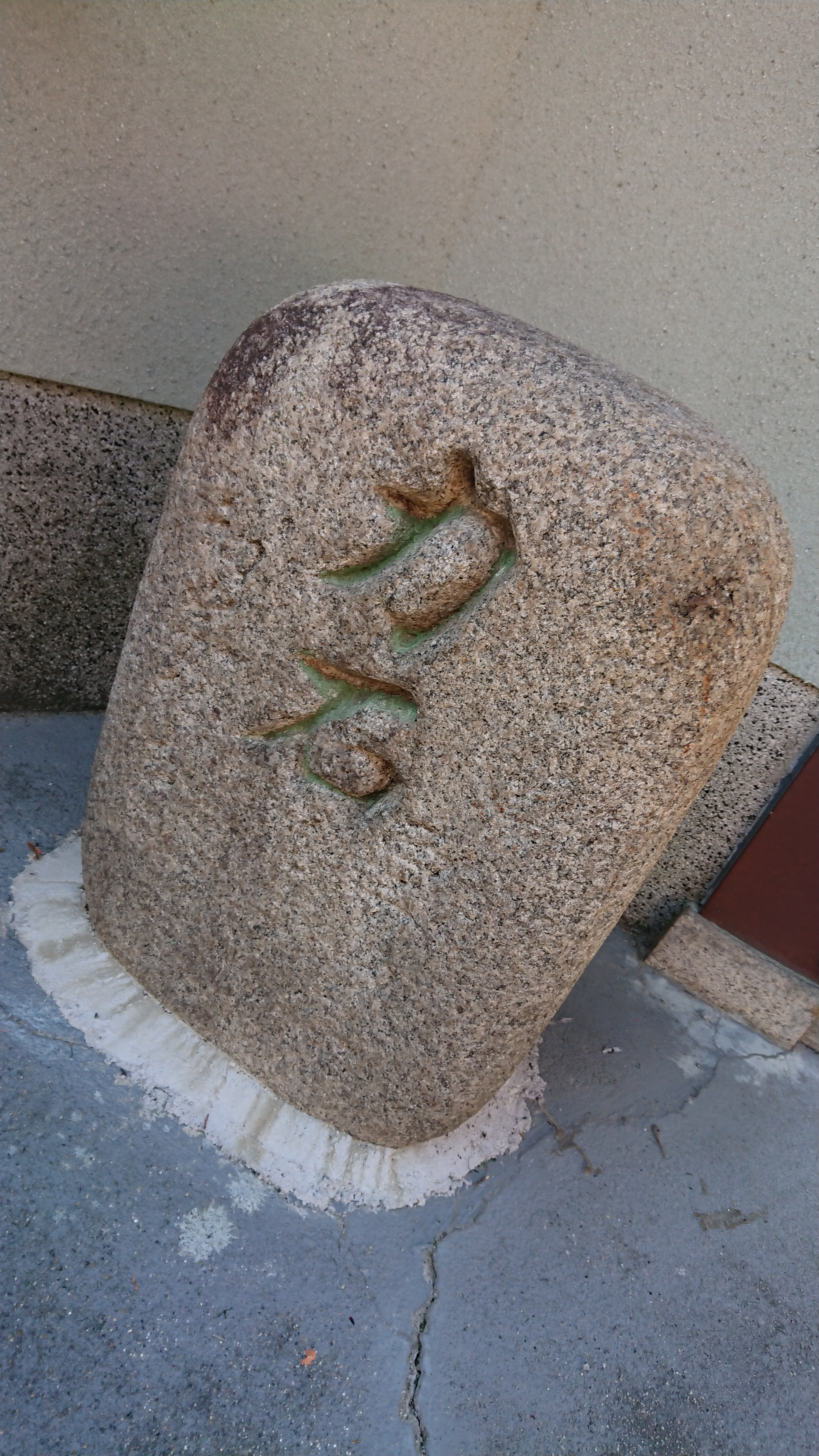 ”Chikaraishi” stone.Ninpoji-temple. Hattori-nishimachi, Toyonaka-city Osaka Japan.